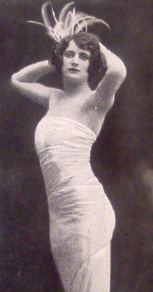 Ana Kremser- bailarina europea